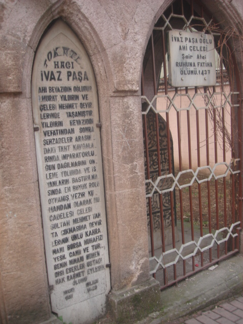 Tomb of Haci Ivaz Pasha, Bursa